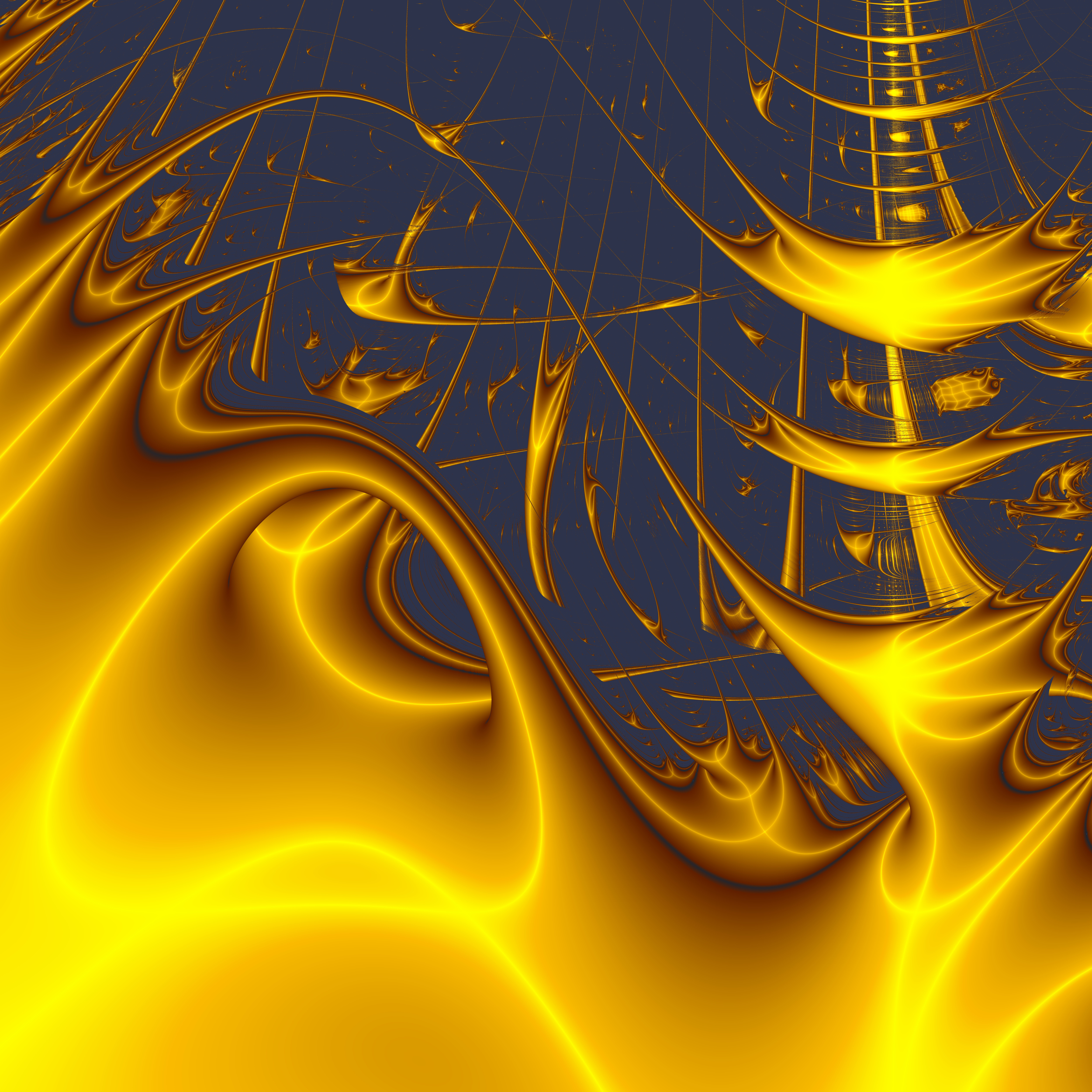 Generalized Lyapunov logistic fractal with iteration sequence BBBBBBAAAAAA, in the growth parameter region (A,B) in [3.4, 4.0] x [2.5, 3.4], known as Zircon Zity.